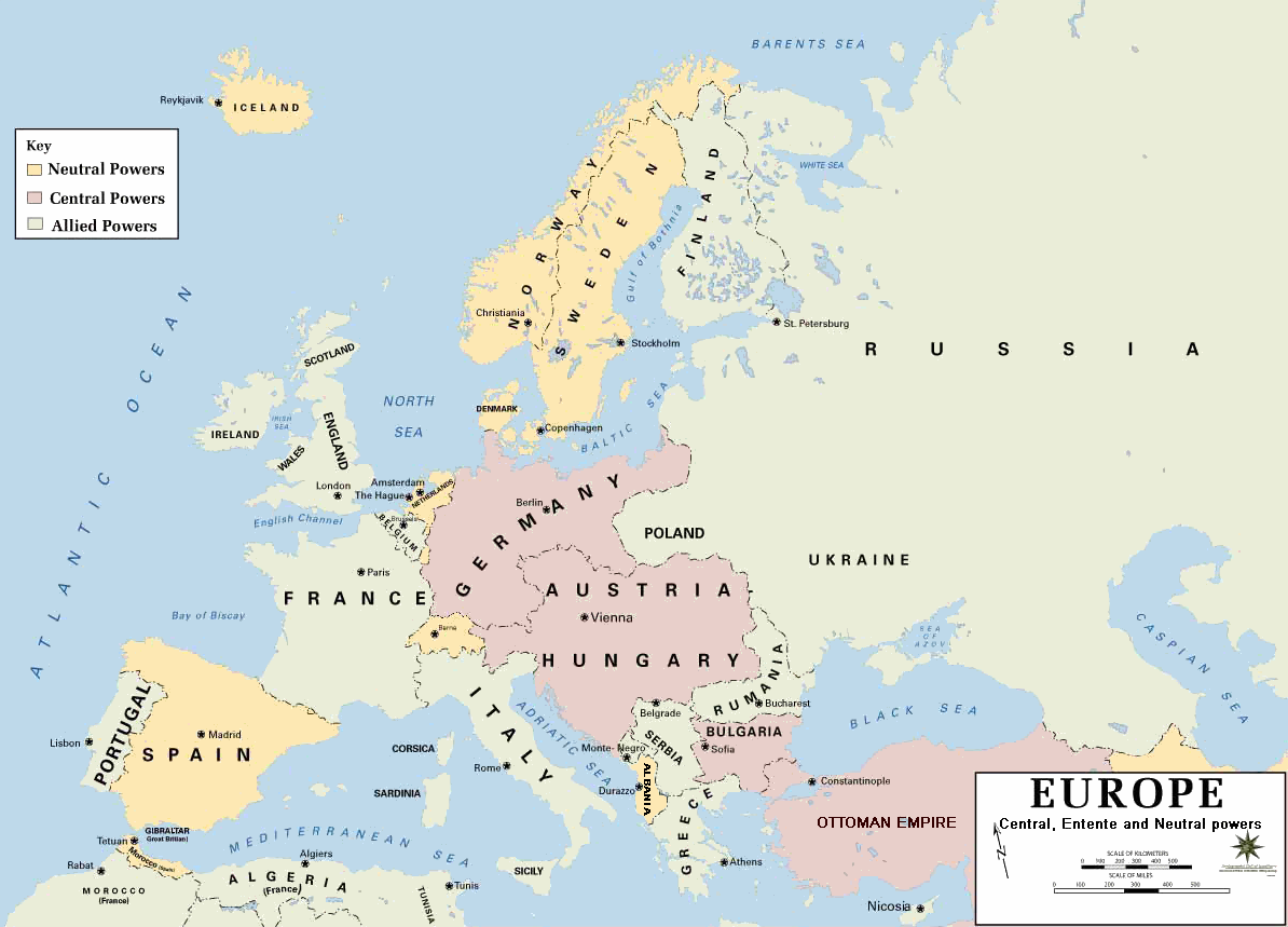 European alliances during the 1914-18 war. Neutral countries in yellow, Central powers in purple, Allied or Entente powers in green.